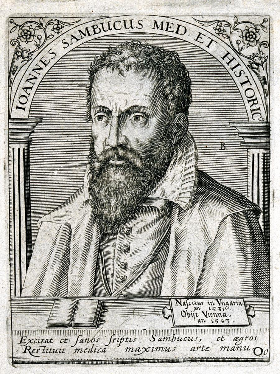 Johann Sambucus,from Jean-Jacques Boissard Bibliotheca chalcographica, 1652-1669